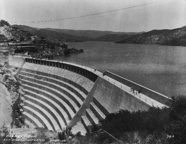 Barrett Dam in San Diego County, CA, nearing completion. Photo published by San Diego Historical Society